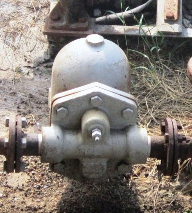 ball float steam trap-a kind of steam trap